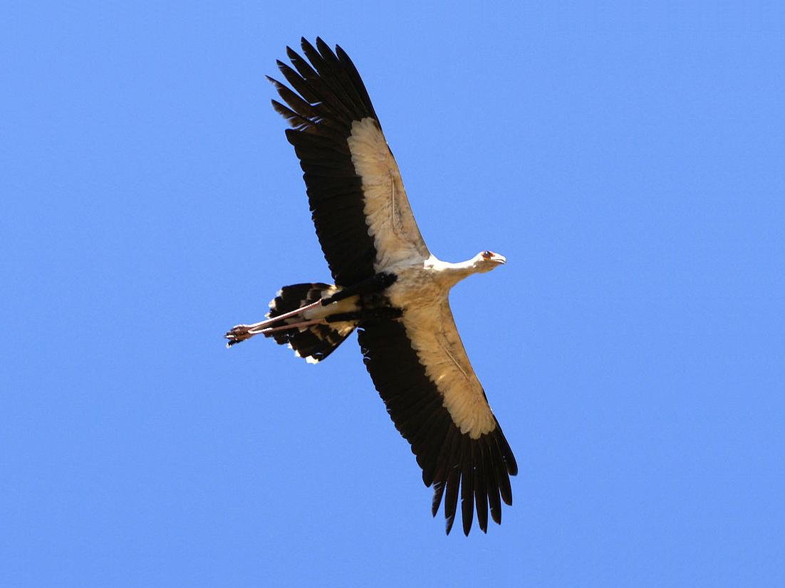 A Secretary Bird flying at Tsavo East National Park, Kenya.